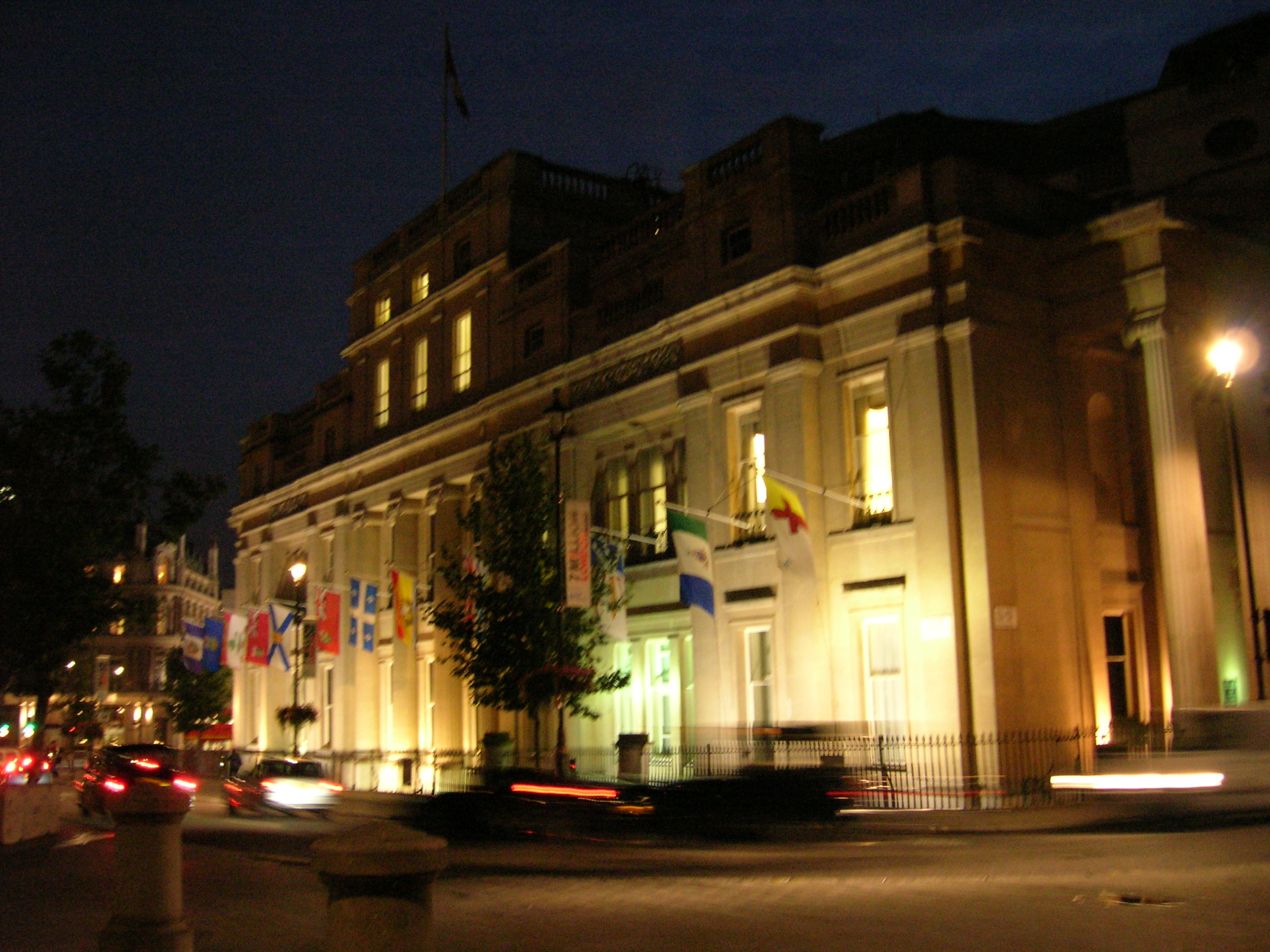 Canada House, London, by night, viewed from Trafalgar Square. (C) Gerry Lynch, 2005.